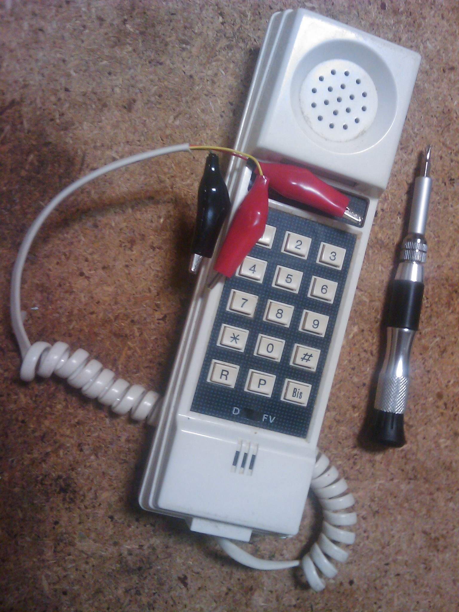 My Beigebox's picture.